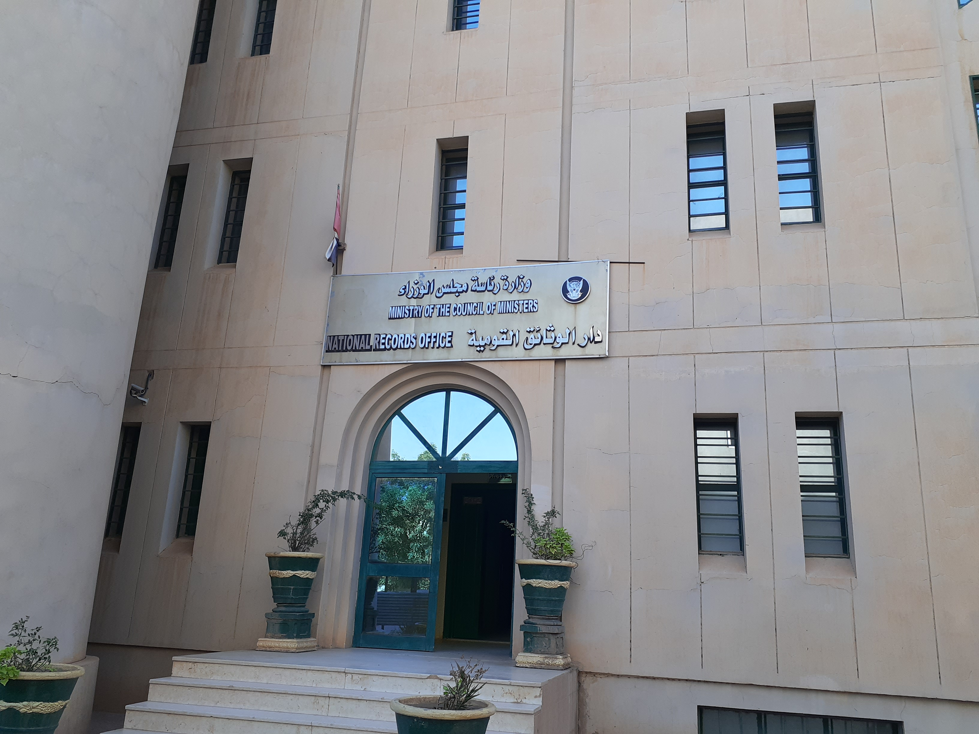 دار الوثائق السودانية